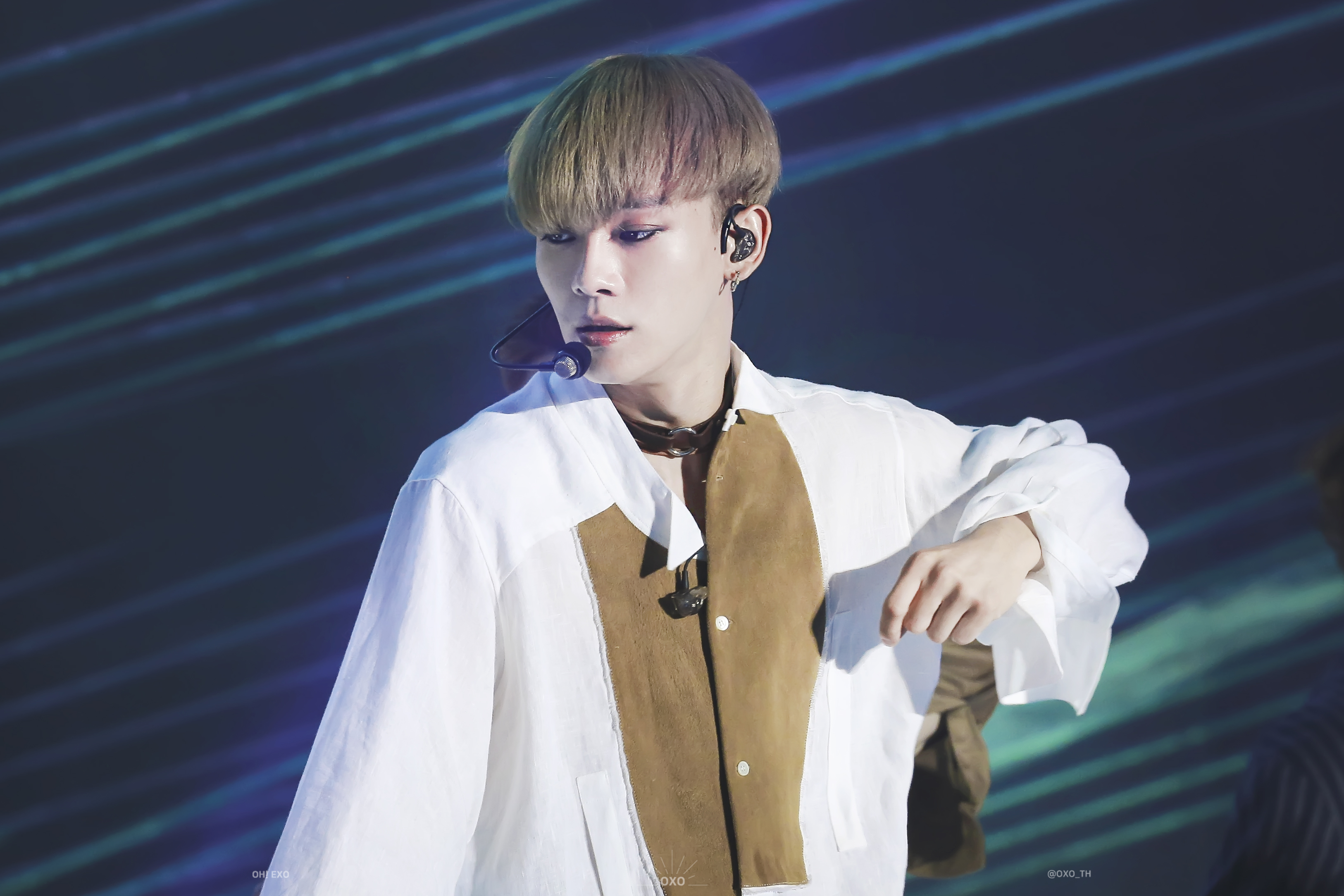 EXO Chen at SMTown Concert in 2017